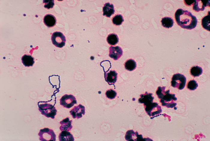 This is a photomicrograph of Streptococcus viridans bacteria that had been grown in a blood culture. The bacterium Streptococcus viridans, is responsible for approximately half of all cases of bacterial endocarditis, but is found in the mouth as normal oral bacterial flora.